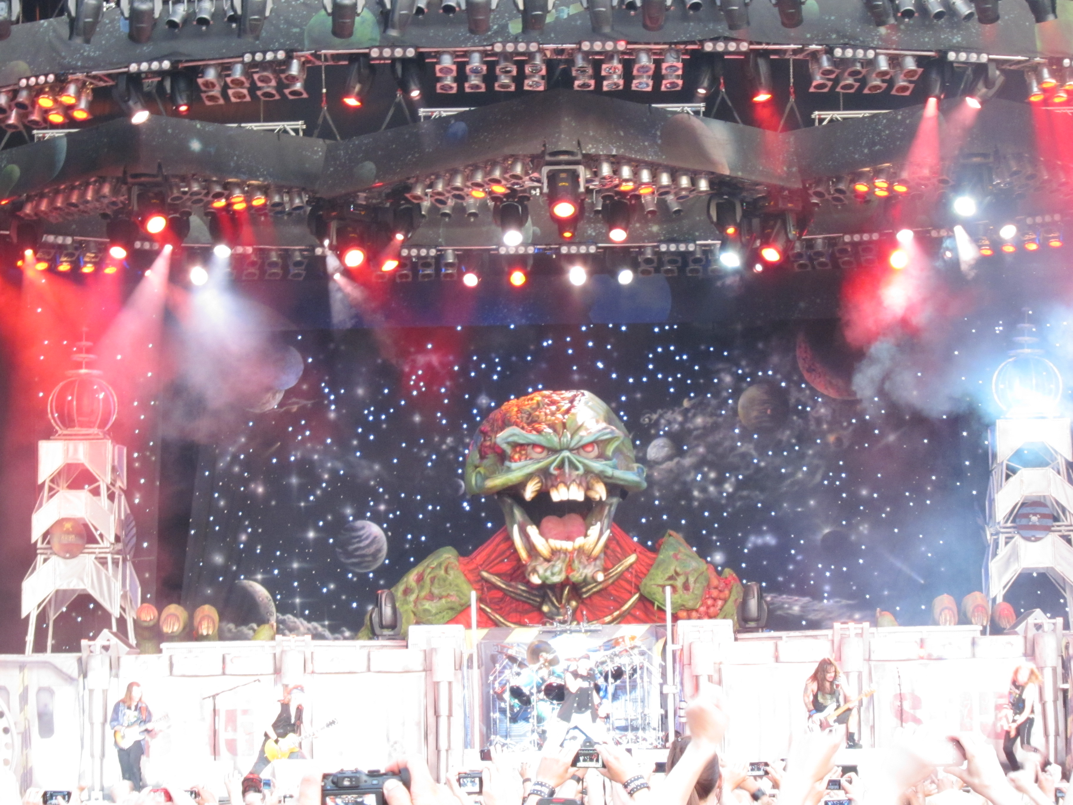 Iron Maiden performing at the Helsinki Olympic Stadium in Helsinki, Finland.